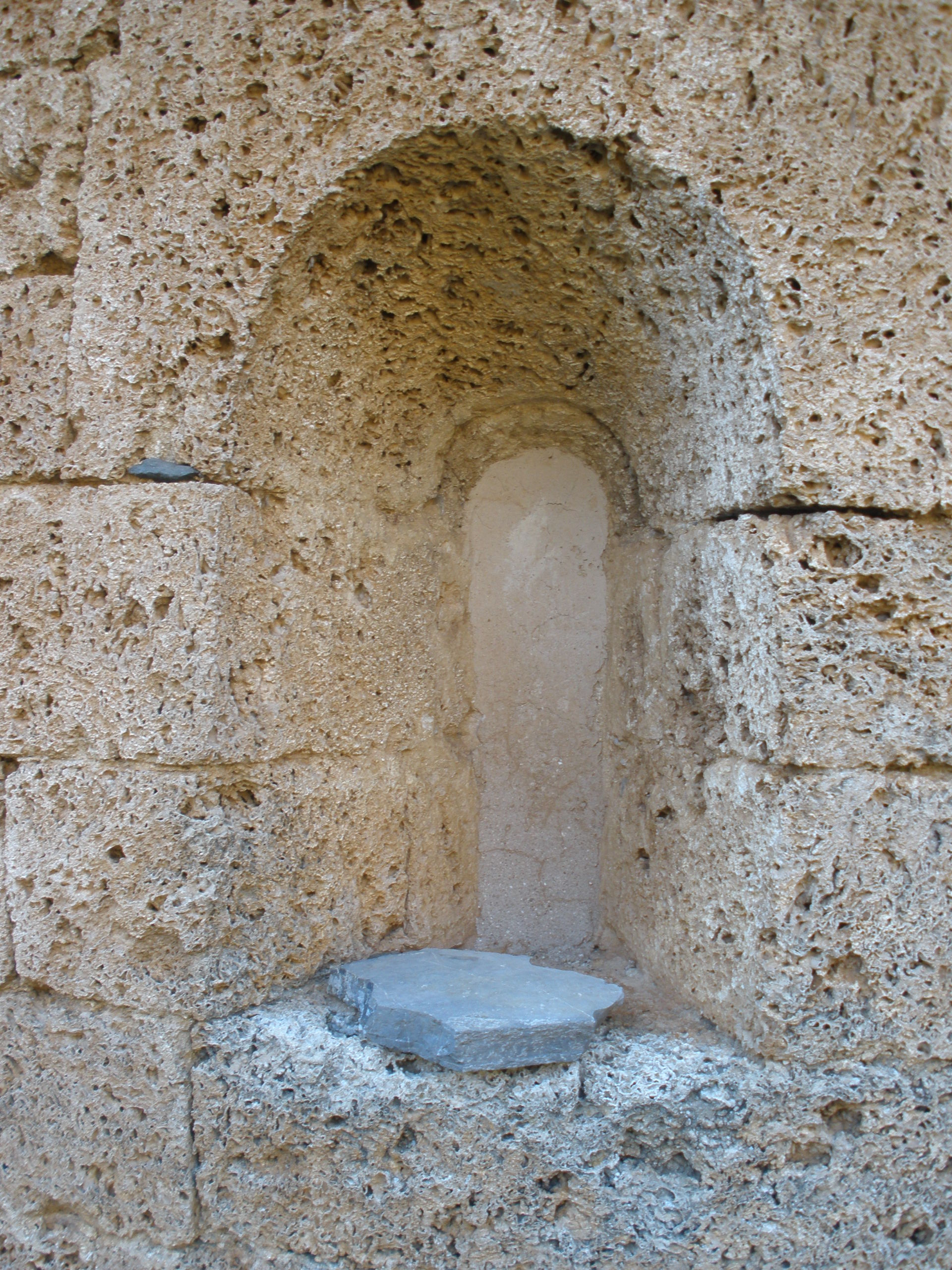 Detail of the church of Sant Quintí in Cambrils. Window of the apse. Cambrils del Solsonès. Municipio of Odèn. Province of Lleida.